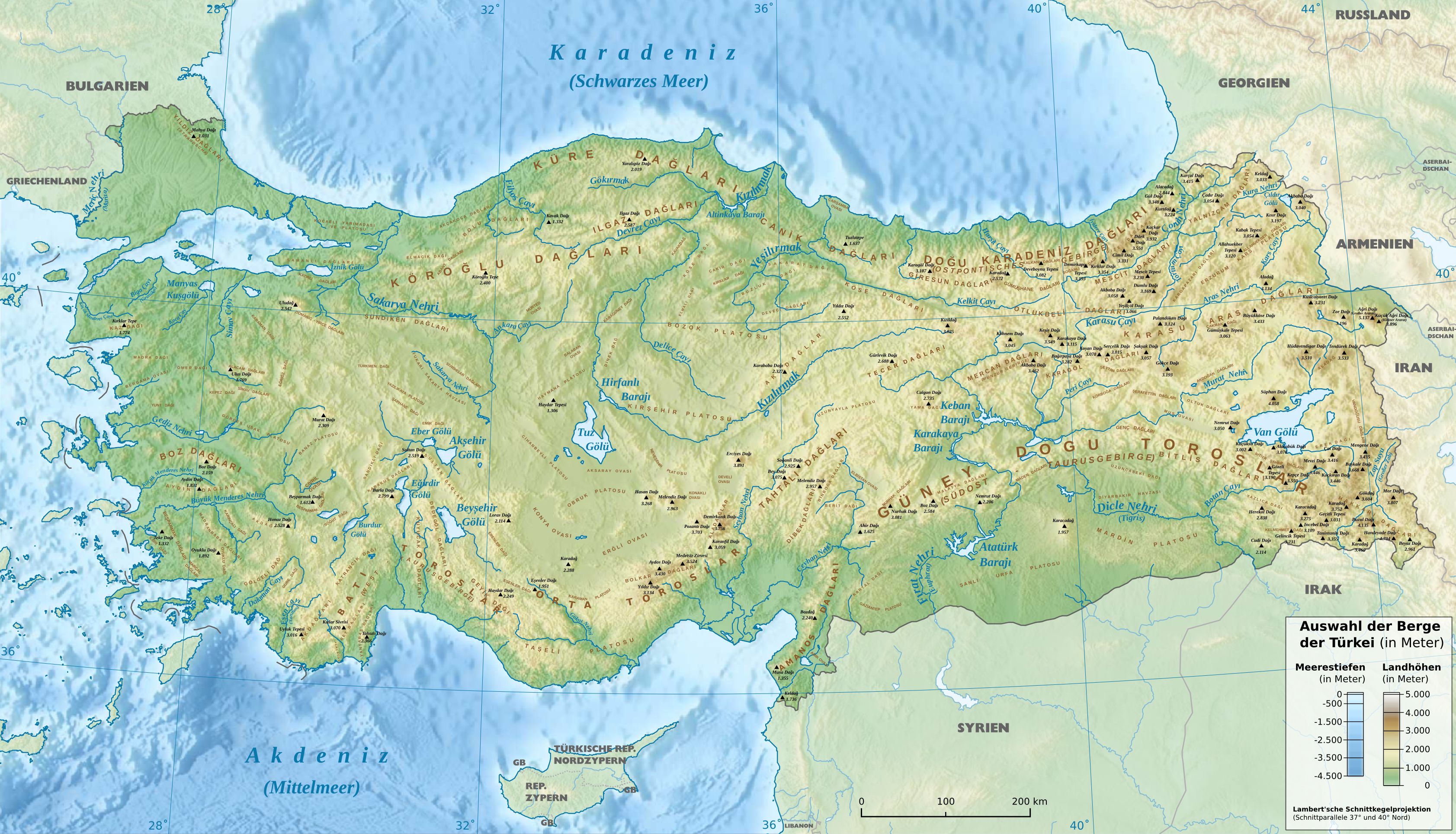 Topographic Map of the Mountains of Turkey, based on WP:Liste der Berge in der Türkei